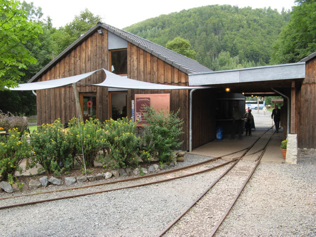 Rabensteiner Stollen near Ilfeld, 15 km from Nordhausen, Deutschland (Zone 32).